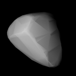 3D convex shape model of 1804 Chebotarev, computed using light curve inversion techniques. J. Hanuš, J. Ďurech, M. Brož, B. D. Warner (June 2011). "A study of asteroid pole-latitude distribution based on an extended set of shape models derived by the lightcurve inversion method". Astronomy and Astrophysics 530: A134. ISSN 0004-6361. arXiv